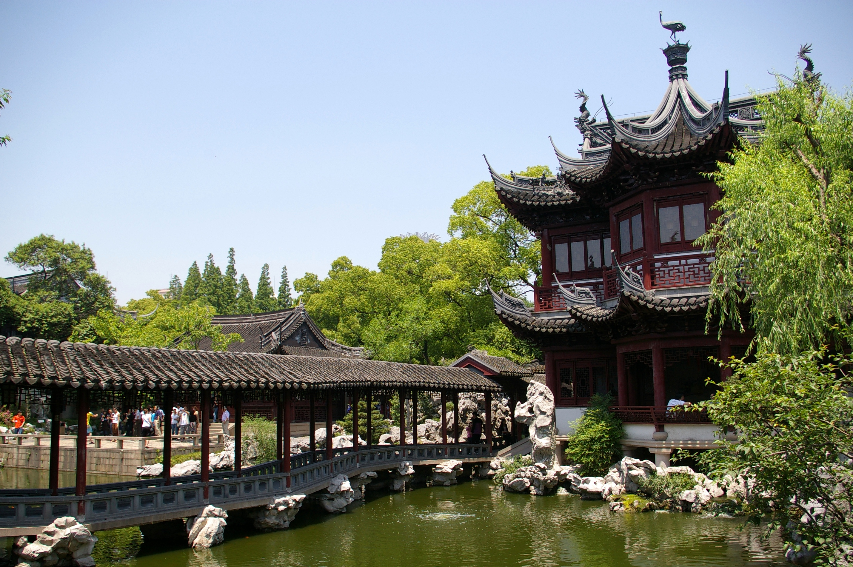 Jade Water Corridor, Jade Rock (Middle) and Tingtao Tower at Yu garden in Shanghai